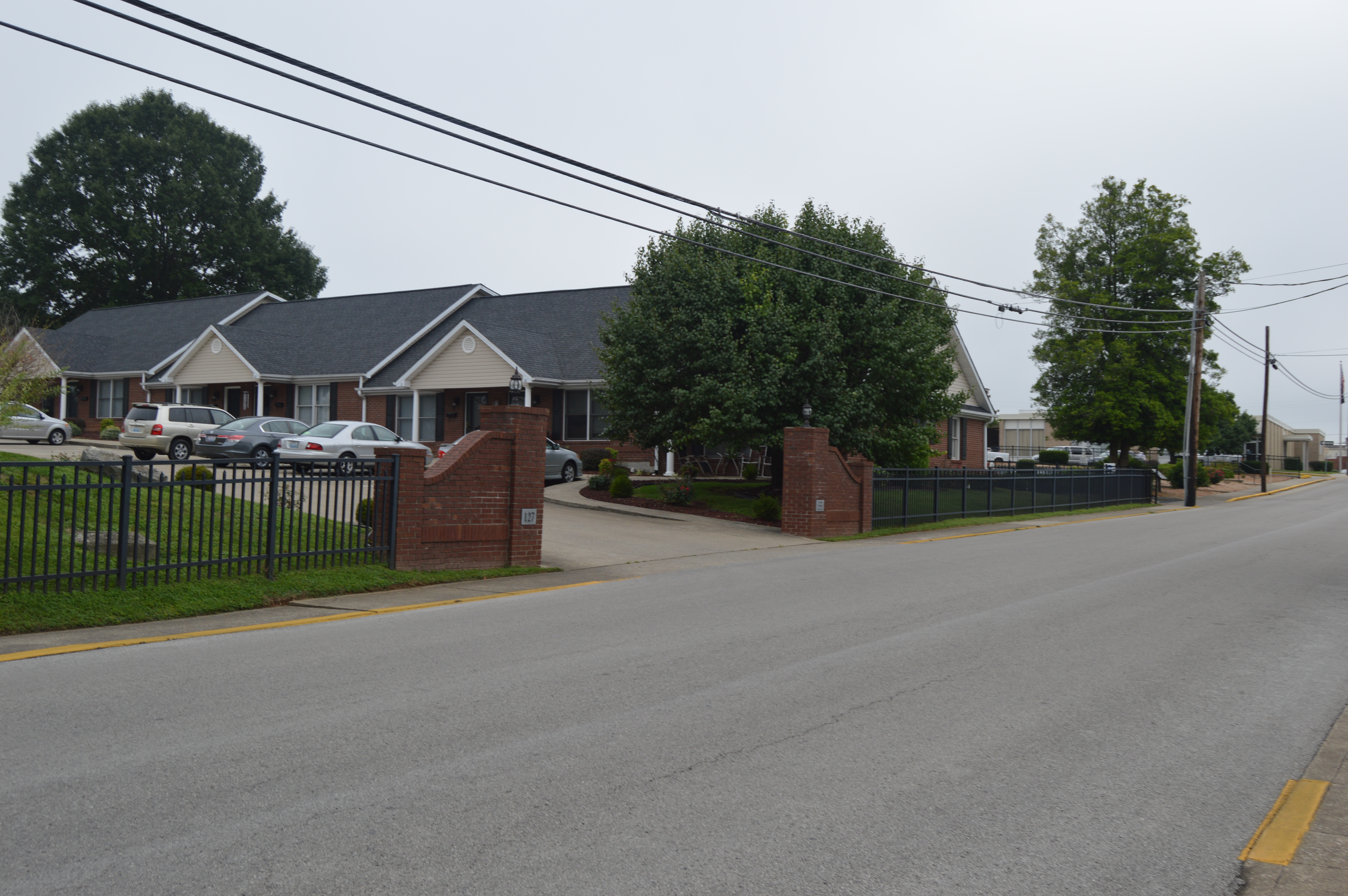 An empty lot on the eastern side of Maple Street south of the Plum Street intersection in Somerset, Kentucky, United States. This was formerly the site of the Crawford House, which has been listed on the National Register of Historic Places; although it was destroyed after designation, it has not yet been removed from the Register.